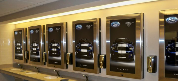 Mirrus mirrors installed in the American Airlines Center, Dallas